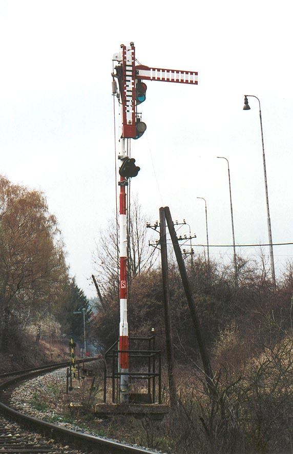 Two-arm entry signal of the station Čísovice, Czech Republic